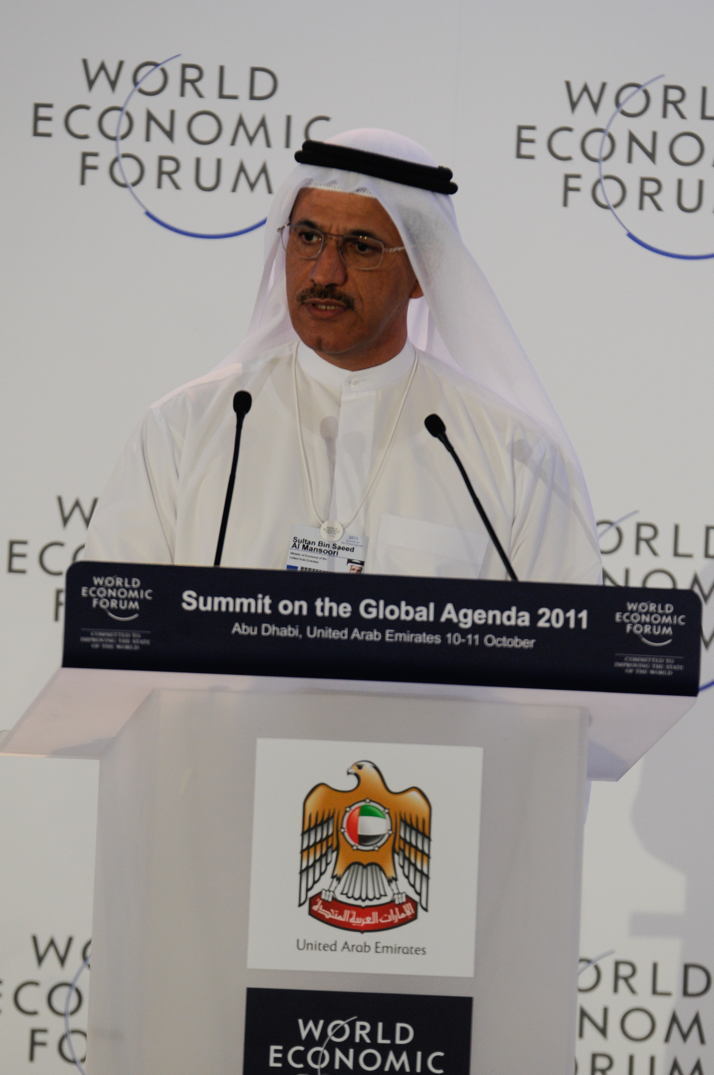 ABU DHABI, UNITED ARAB EMIRATES, 10OCT11 - H.E. Sultan Bin Saeed AlMansoori, Minister of Economy of the United Arab Emirates; Co-Chair of the Summit on the Global Agenda 2011; Co-Chair of the Summit on the Global Agenda speaks at the opening plenary at the World Economic Forum's Summit on the Global Agenda 2011 held in Abu Dhabi, 10-11 October 2011. Copyright (cc-by-sa) © World Economic Forum ( Norbert Schiller)